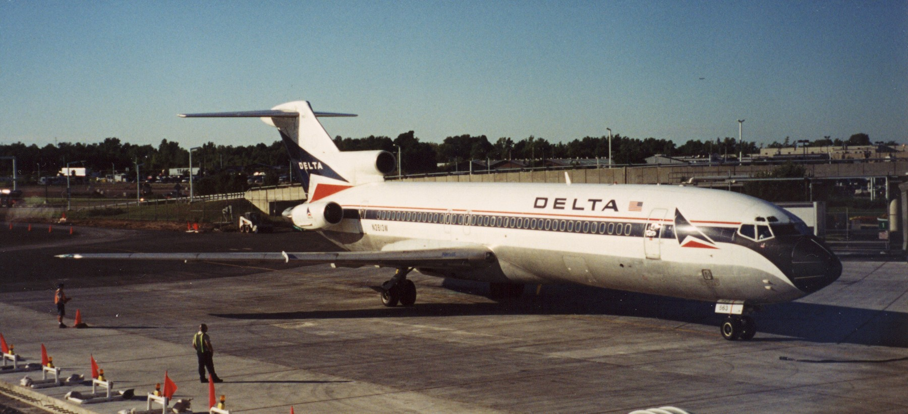 Delta Air Lines Boeing 727-200 arrives at Greater Rochester, NY International Airport from Atlanta Hartsfield-Jackson Airport in September 2002.